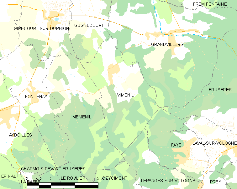 Map of French municipality Viménil